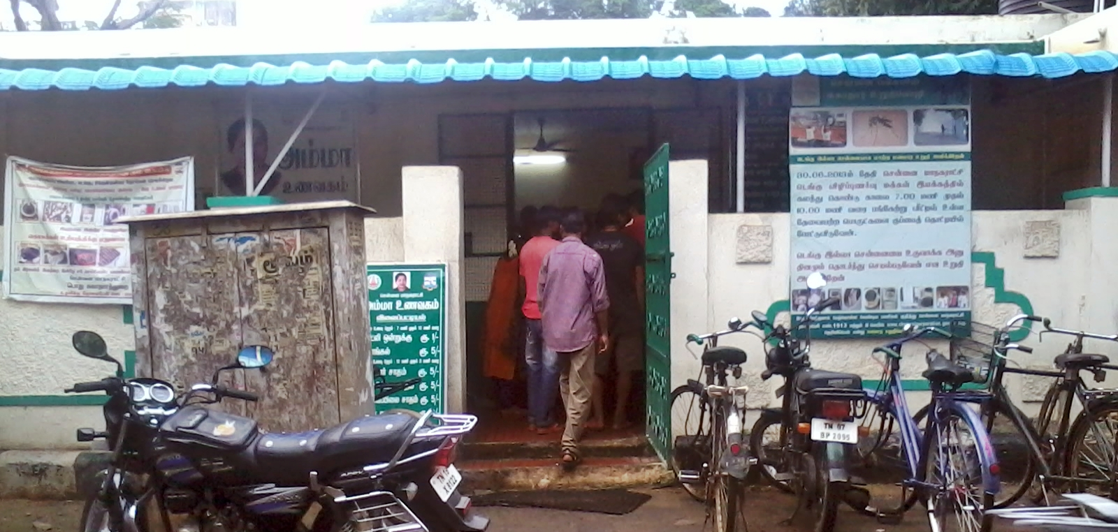 Front view of the subsidised govt eatery Amma Unavagam at Thiruvengadam Street, Adyar, Chennai